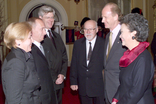 RIDEAU HALL, OTTAWA. Adrienne Clarkson, the Governor General of Canada, and her husband with Vladimir and Lyudmila Putin at an official ceremony.